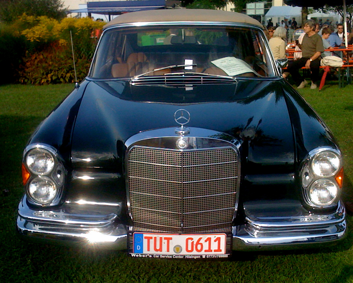 Mercedes Benz 250 SE Conv. (1968)